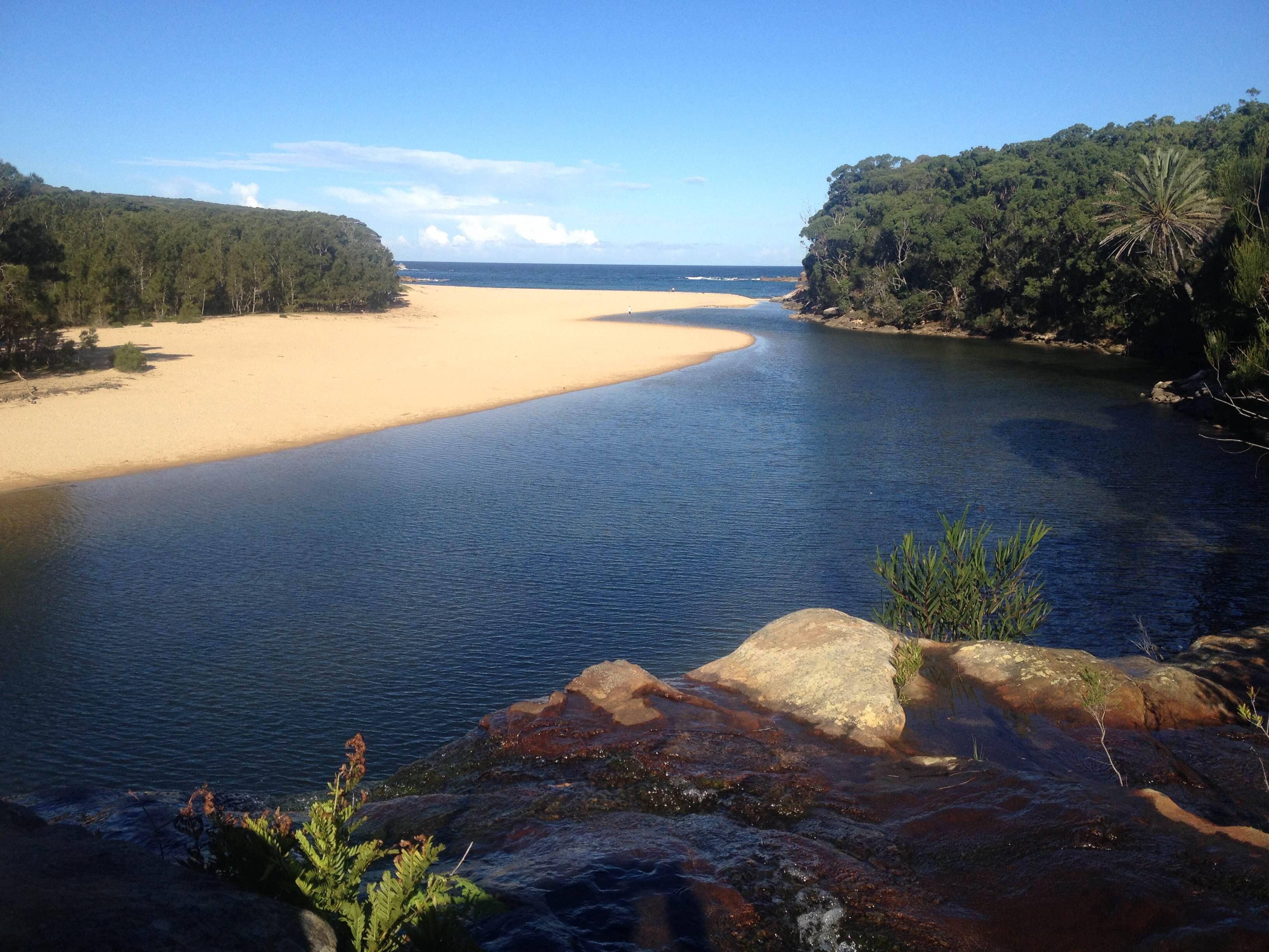 Wattamolla lagoon in the Royal National Park, Australia. In the foreground is the waterfall and the background the beach and inlet to the Pacific Ocean.